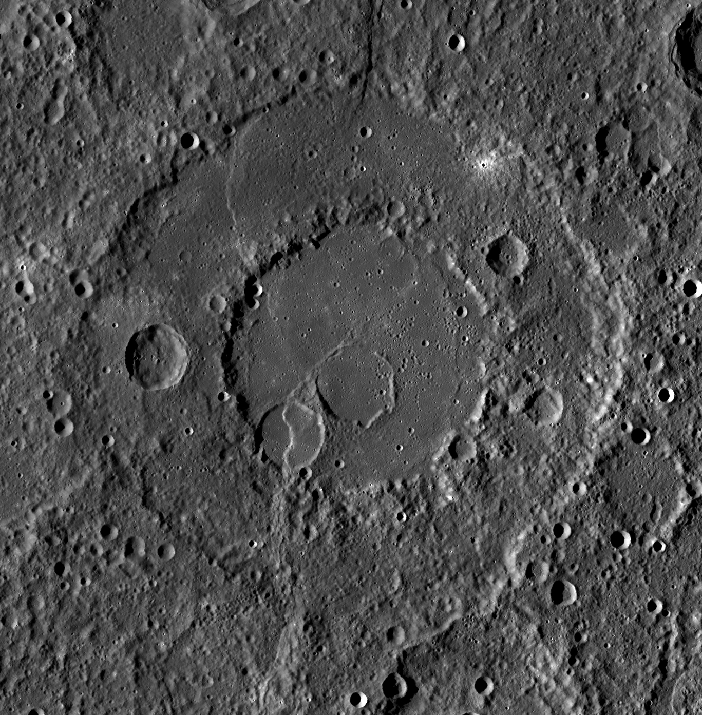 Renoir crater on Mercury, photo taken by the MESSENGER spacecraft and released on 17 August 2012. Instrument: Wide Angle Camera (WAC) of the Mercury Dual Imaging System (MDIS) Latitude Rang: 15° S to 22° S Longitude Range: 304° E to 312° E Resolution: 213 meters/pixel Scale: Renoir is approximately 215 km (134 mi.) in diameter Projection: Equirectangular Of Interest: Today's featured image highlights Renoir, one of Mercury's beautiful peak-ring basins. Renoir appears to be older than other basins like Raditladi and Rachmaninoff, with more degradation from subsequent cratering and modification by tectonic activity. This mosaic was acquired as part of MDIS's high-incidence-angle base map. The high-incidence-angle base map is a major mapping activity in MESSENGER's extended mission and complements the surface morphology base map of MESSENGER's primary mission that was acquired under generally more moderate incidence angles. High incidence angles, achieved when the Sun is near the horizon, result in long shadows that accentuate the small-scale topography of geologic features. The high-incidence-angle base map is being acquired with an average resolution of 200 meters/pixel.